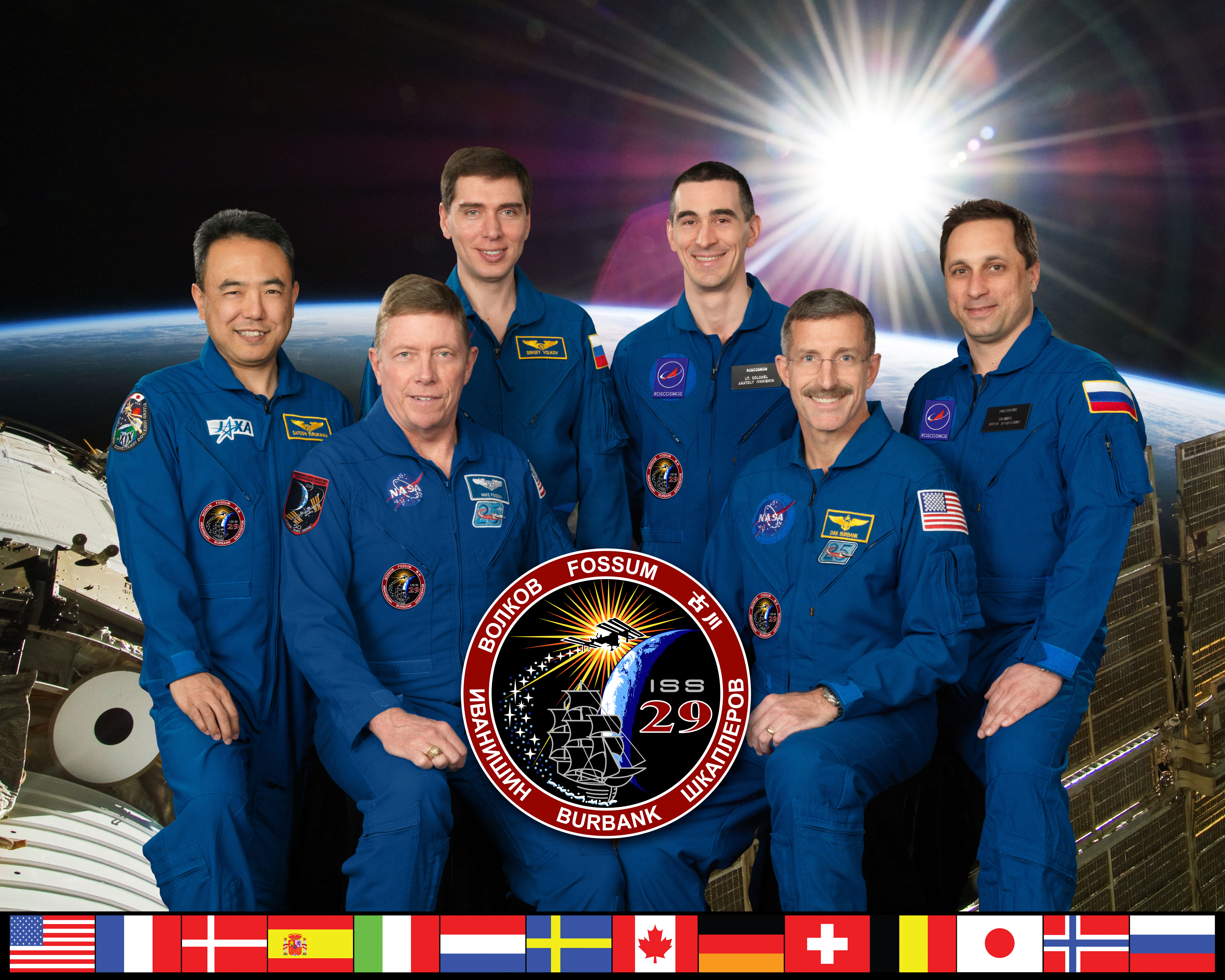 Expedition 29 crew members take a break from training at NASA's Johnson Space Center to pose for a crew portrait. Pictured on the front row are NASA astronauts Mike Fossum (left), commander; and Dan Burbank, flight engineer. Pictured from the left (back row) are Japan Aerospace Exploration Agency (JAXA) astronaut Satoshi Furukawa along with Russian cosmonauts Sergei Volkov, Anatoly Ivanishin and Anton Shkaplerov, all flight engineers.